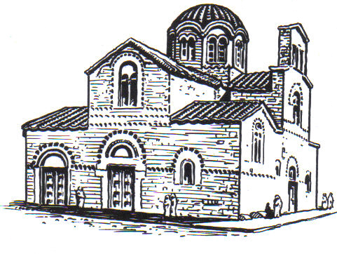 Minor cleanup, b/c changes to original picture, crop (Image:Byzantine Architecture (PSF).jpg)